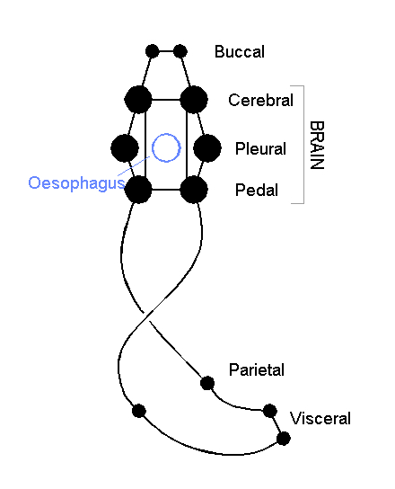 Simplified plan of the gastropod central nervous system, showing the main ganglia